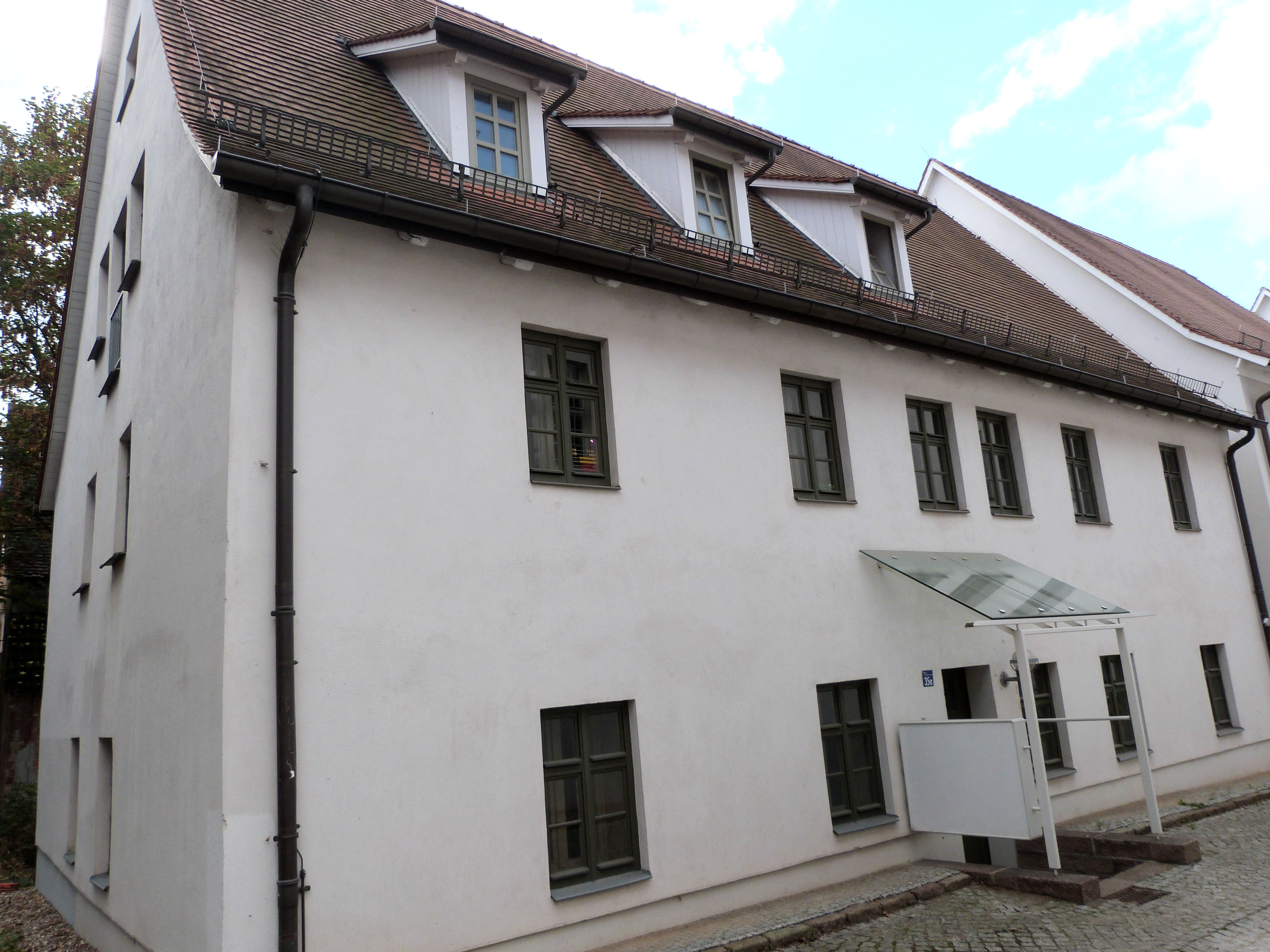 House 35a, former carriage house, Francke foundations in Halle (Saale), today housing